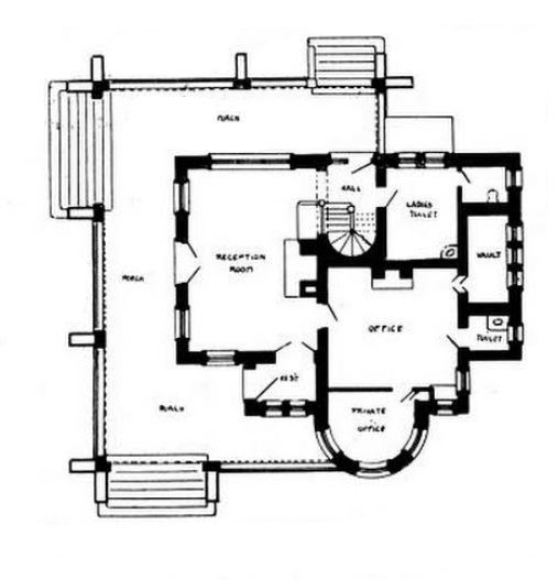 First floor plan of the 1897 gatehouse at Riverside Cemetery in Cleveland, Ohio, in the United States. The building was designed by architect Charles W. Hopkinson. North is to the left of the image. This is the original floor plan. Subsequent alterations have closed off the entrances on the north and west sides, and have altered the interior somewhat to add toilets and change useage of space.